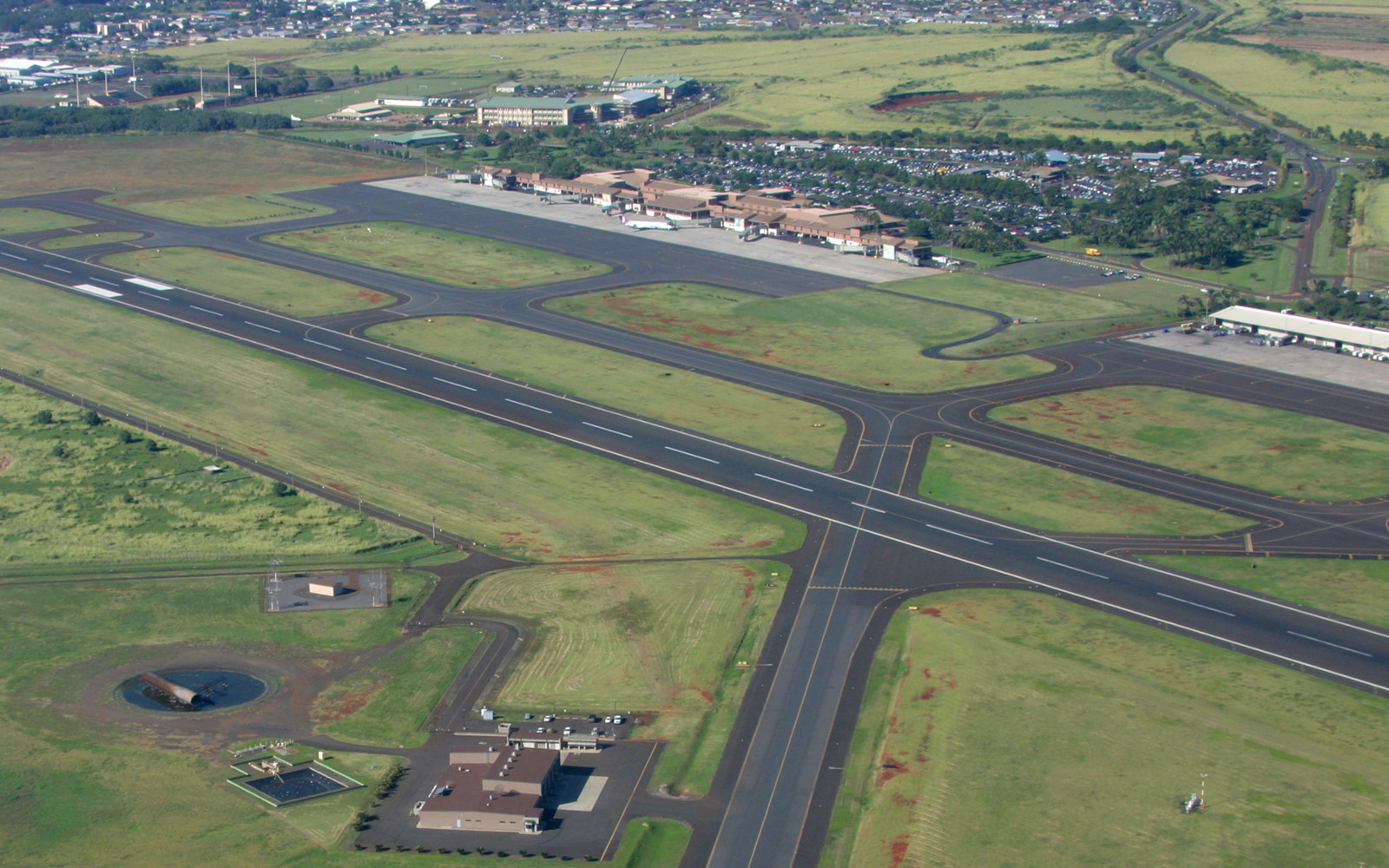 aerial view of Lihue Airport